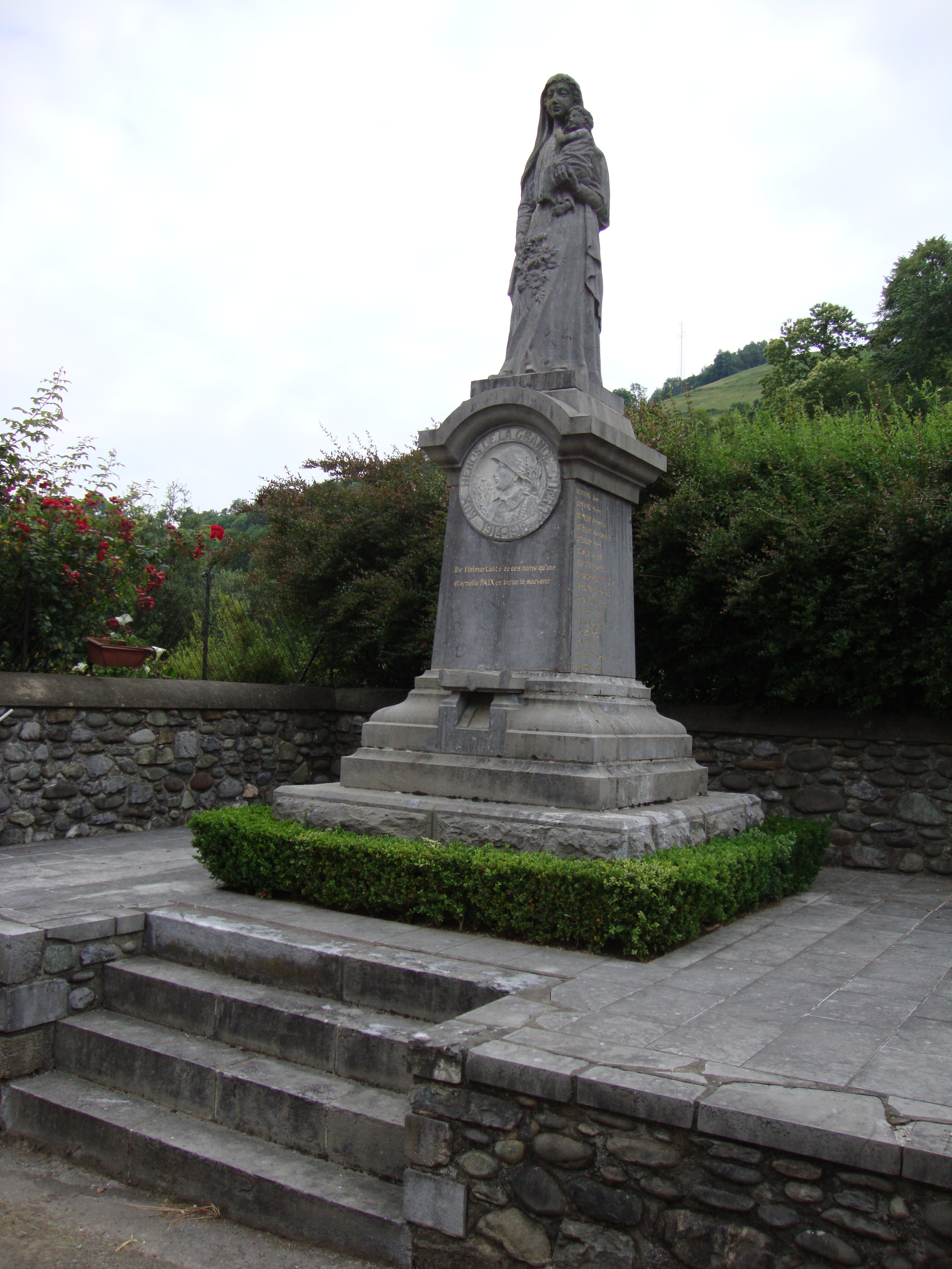 Escot (Pyr-Atl, Fr) war memorial